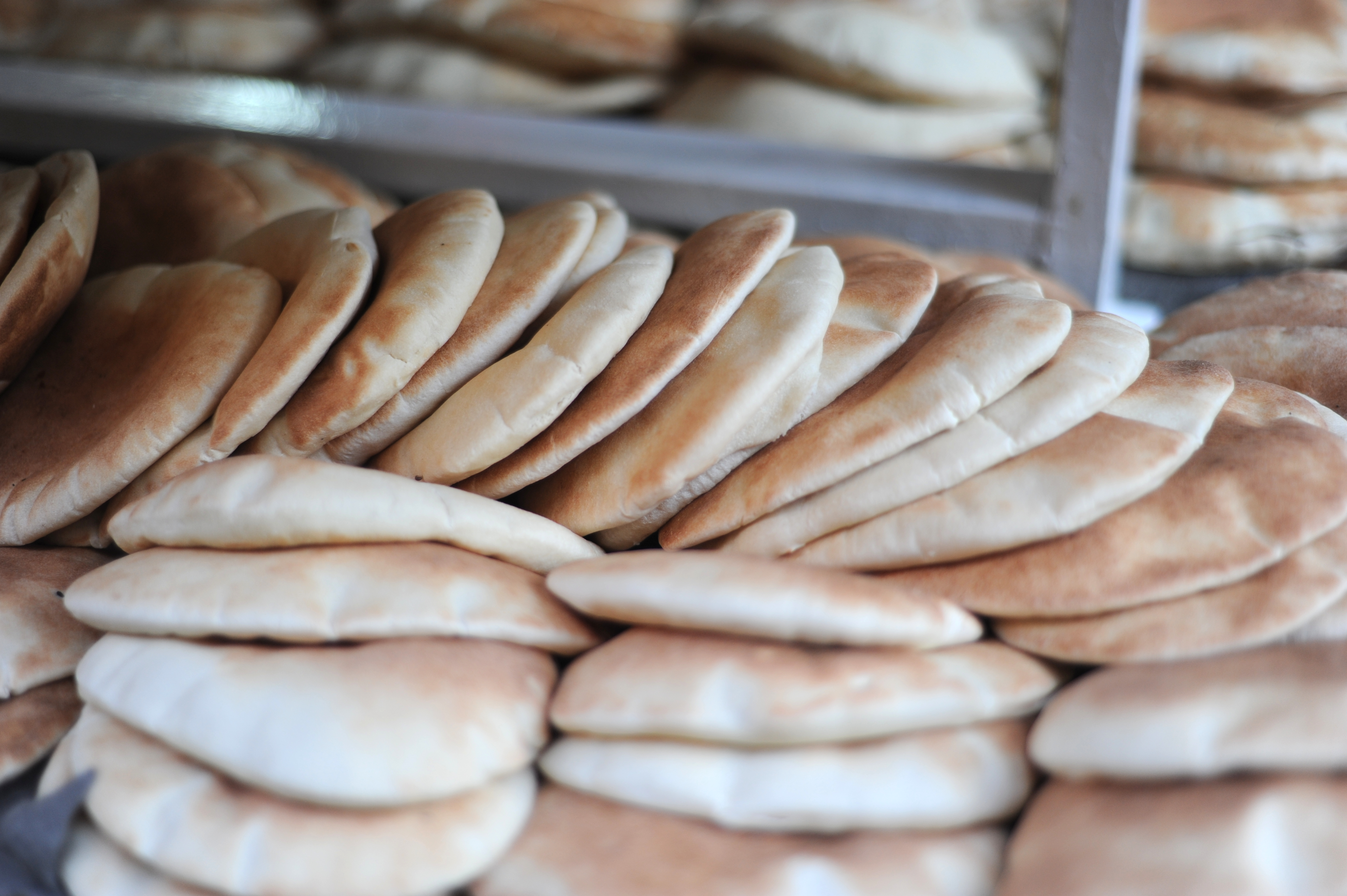 Pita at the souq on Khaled ibn al-Waleed street, in the old city of Nablus, West Bank